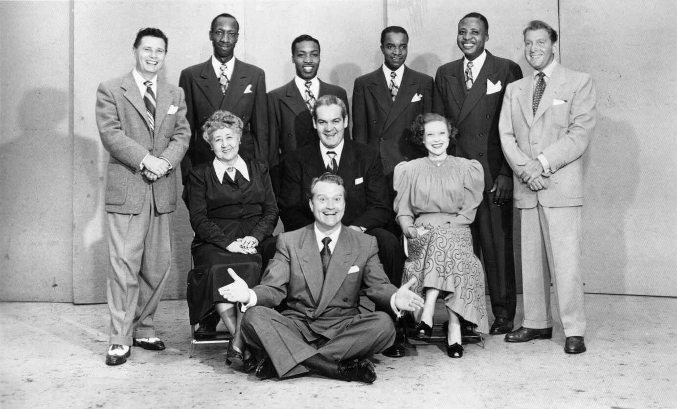 Photo from promotional postcard for Red Skelton's Raleigh Cigarettes radio show. Standing: Pat McGeehan, The Four Knights, David Rose (orchestra leader). Seated:Verna Felton ("Grandma" to Skelton's "Junior" character), Rod O'Connor (announcer), Lurlene Tuttle ("Mother" to Skelton's "Junior" character). Front: Red Skelton Copy from back of card:"Hi Folks, We hope you'll remember our new radio time Friday Night-back on your favorite NBC station. We dood it, Red Skelton & gang." Copyright details The postcard was sent to listeners of NBC Radio's Raleigh Cigarettes Show in 1948 and can be dated by the card's postmark. There are no copyright marks on either side, as can be seen in the full photo links. It is well within the free license timeframe. It was created for distribution to the radio show's listeners to induce regular listening, to promote the Raleigh brand of cigarettes, and to advise listeners that the time of the show had been changed.